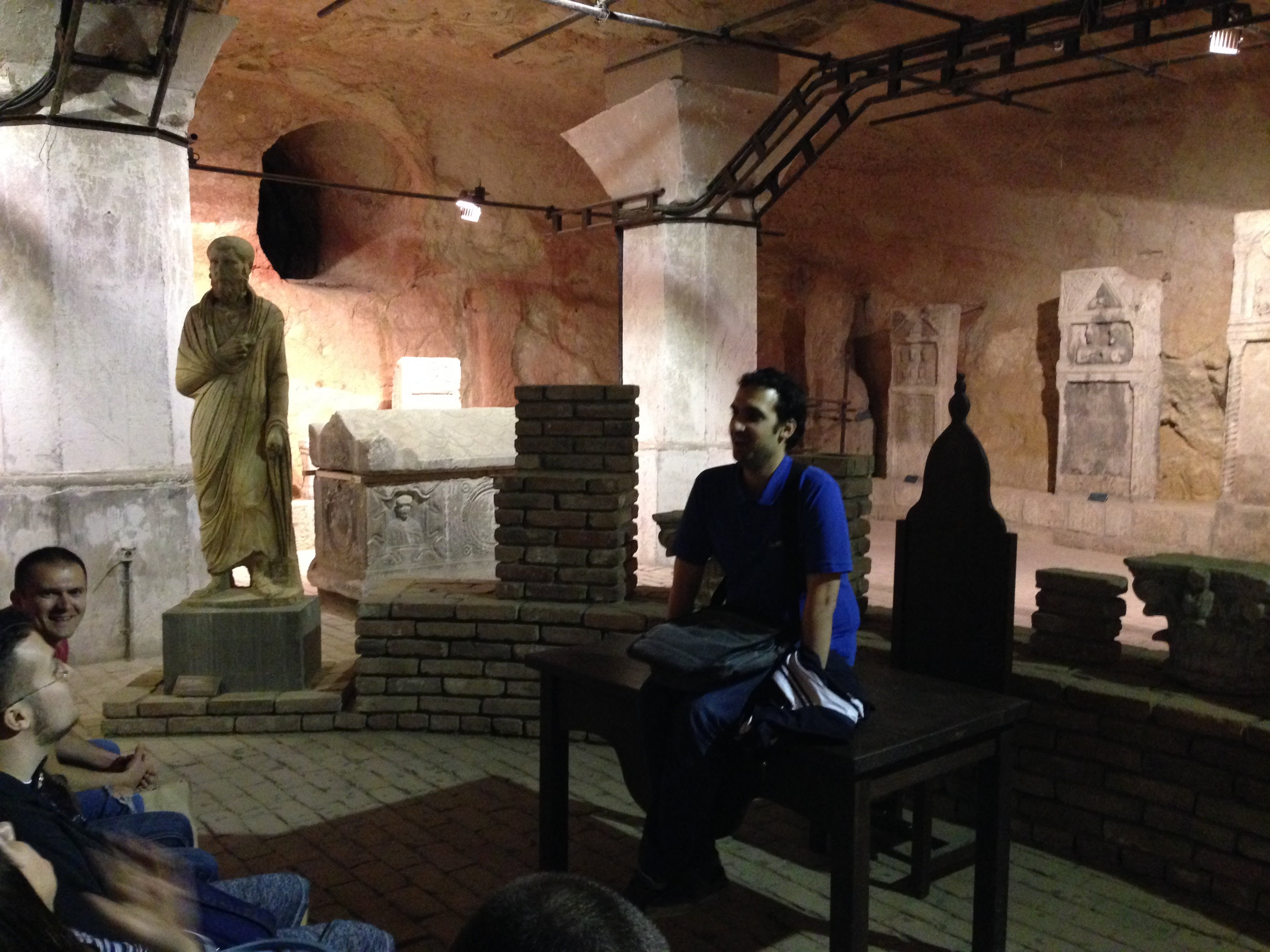 Big Barutana Belgrade Fortress